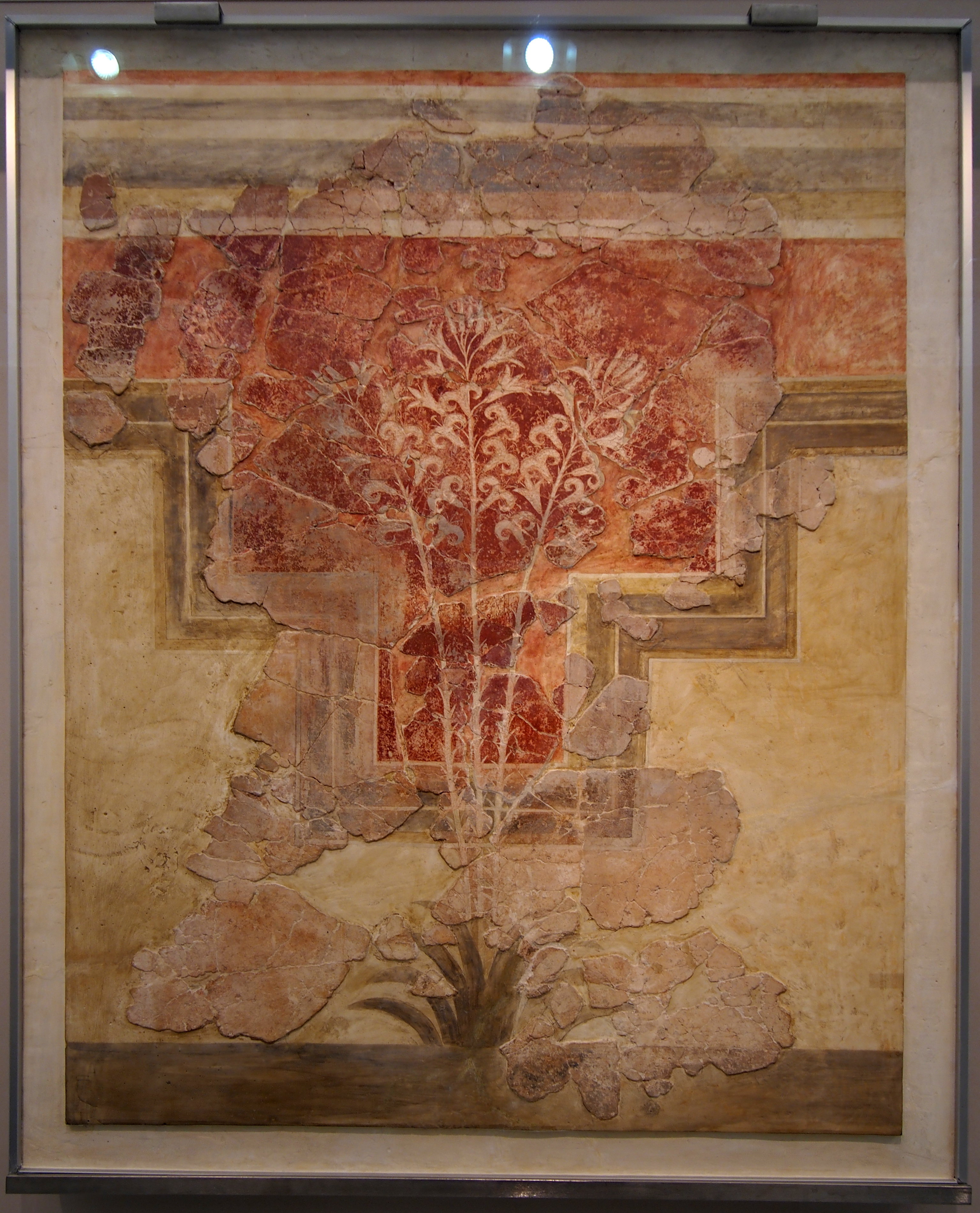 The minoan "fresco of the Lilies", found in Amnisos. Nowadays is housed in Heraklion Archaelogical Museum.